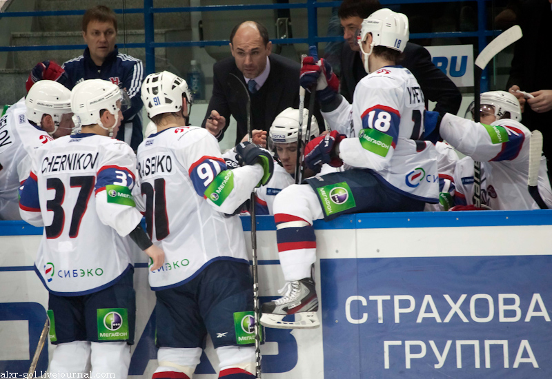 KHL game HC Sibir Novosibirsk vs. Amur Khabarovsk on December 4, 2011. HC Sibir assistant coach Dmitri Yushkevich talks to his players Alexander Chernikov (#37), Vladimir Tarasenko (#91) and Yuri Petrov (sits on the board) as the regulation comes to an end.